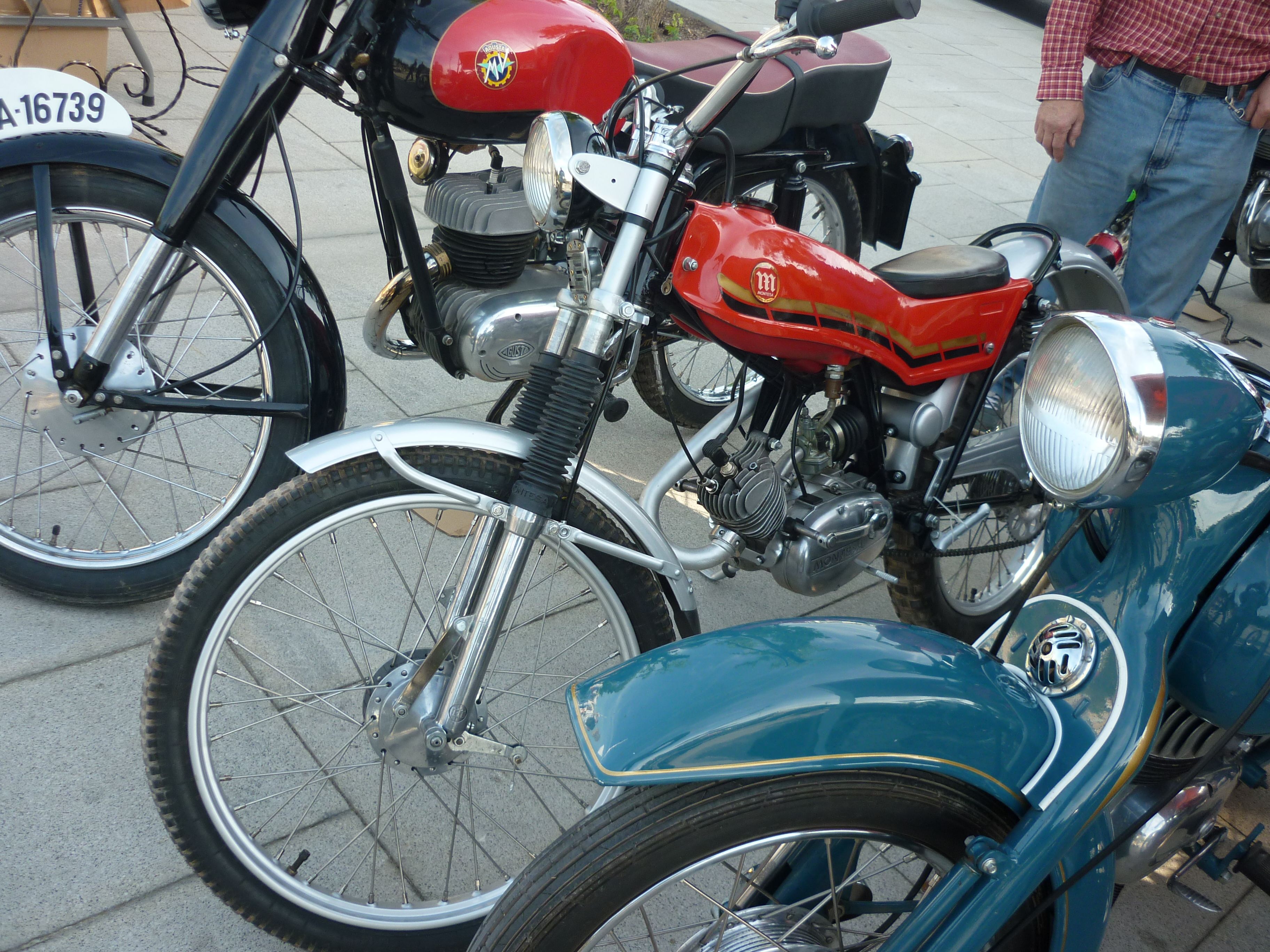 Montesa Cota 49, 1978